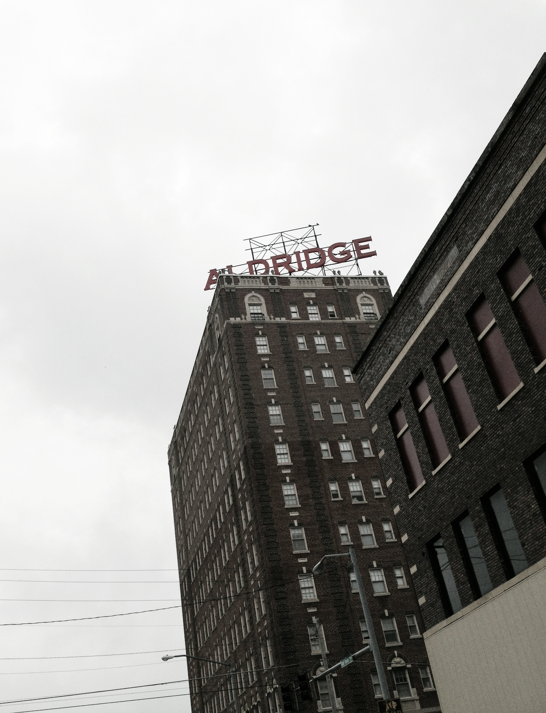 Aldridge Hotel in McAlester. Currently operates as an Apartment building.